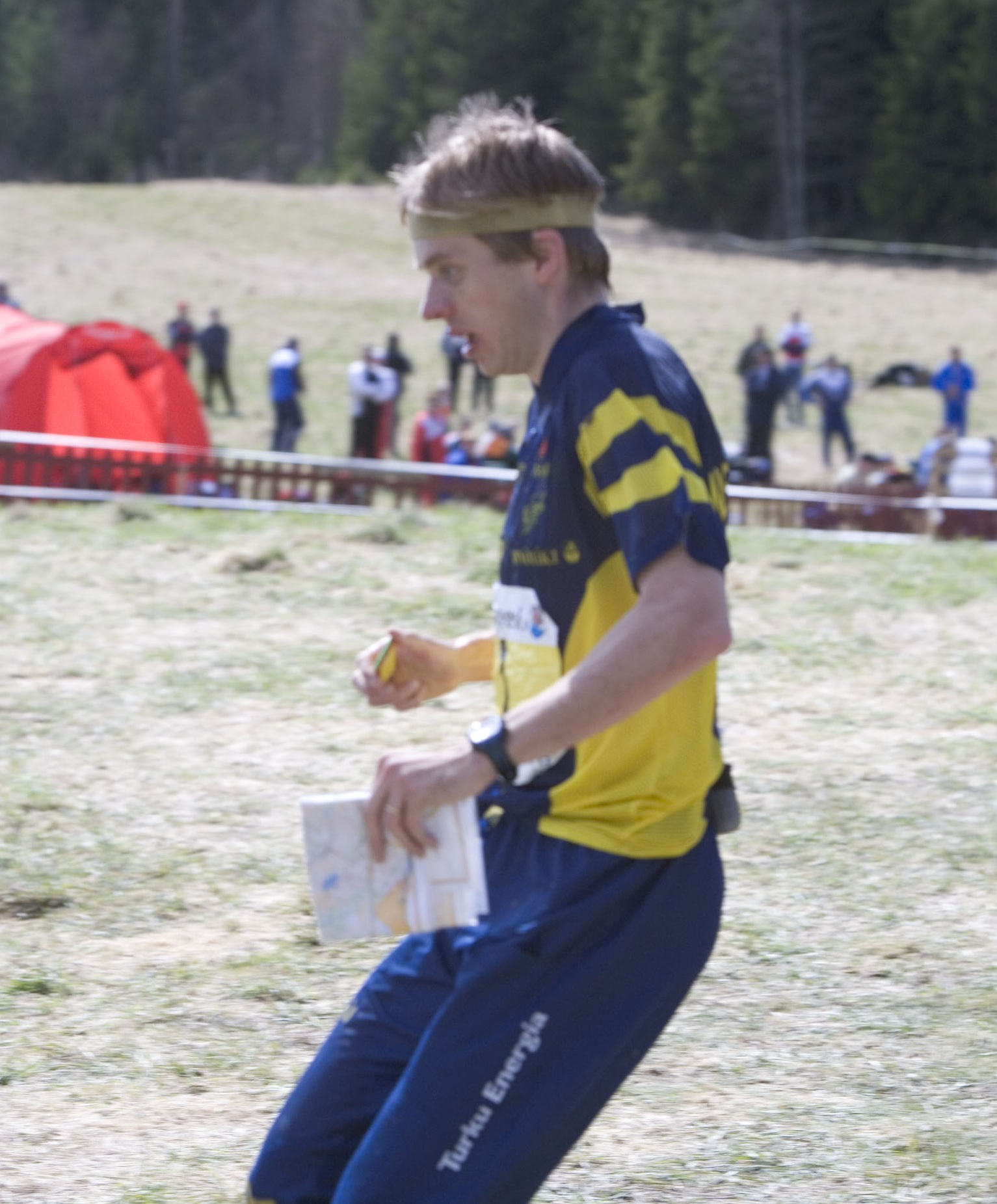 Petteri Muukkonen in Orienteering Finnish Championships Extra Long distance 2005.